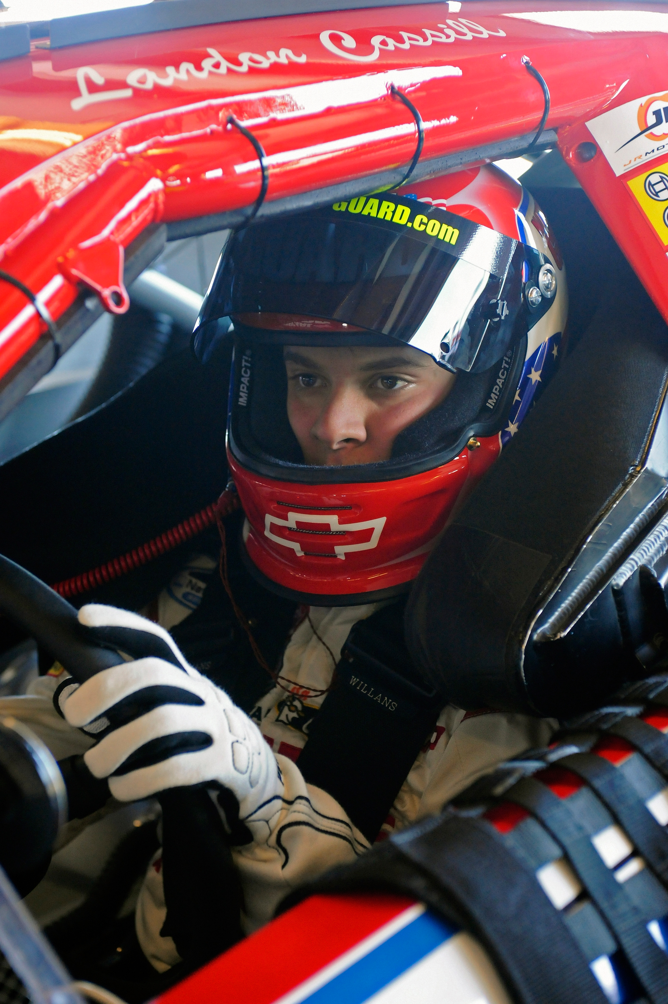 Landon Cassill in the #5 National Guard car at Nashville Superspeedway